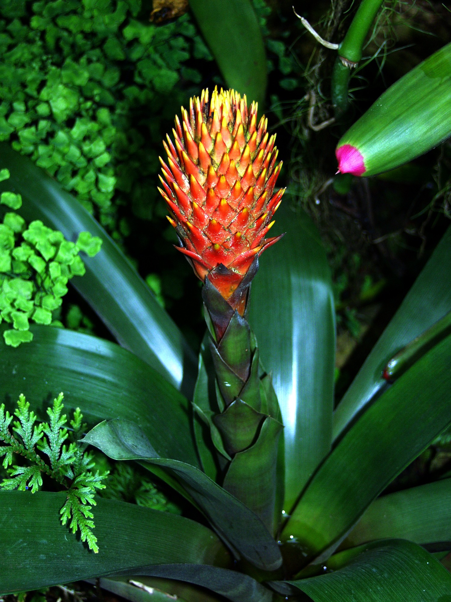 Flower of Guzmania conifera at Botanical Garden Cologne ("Flora")